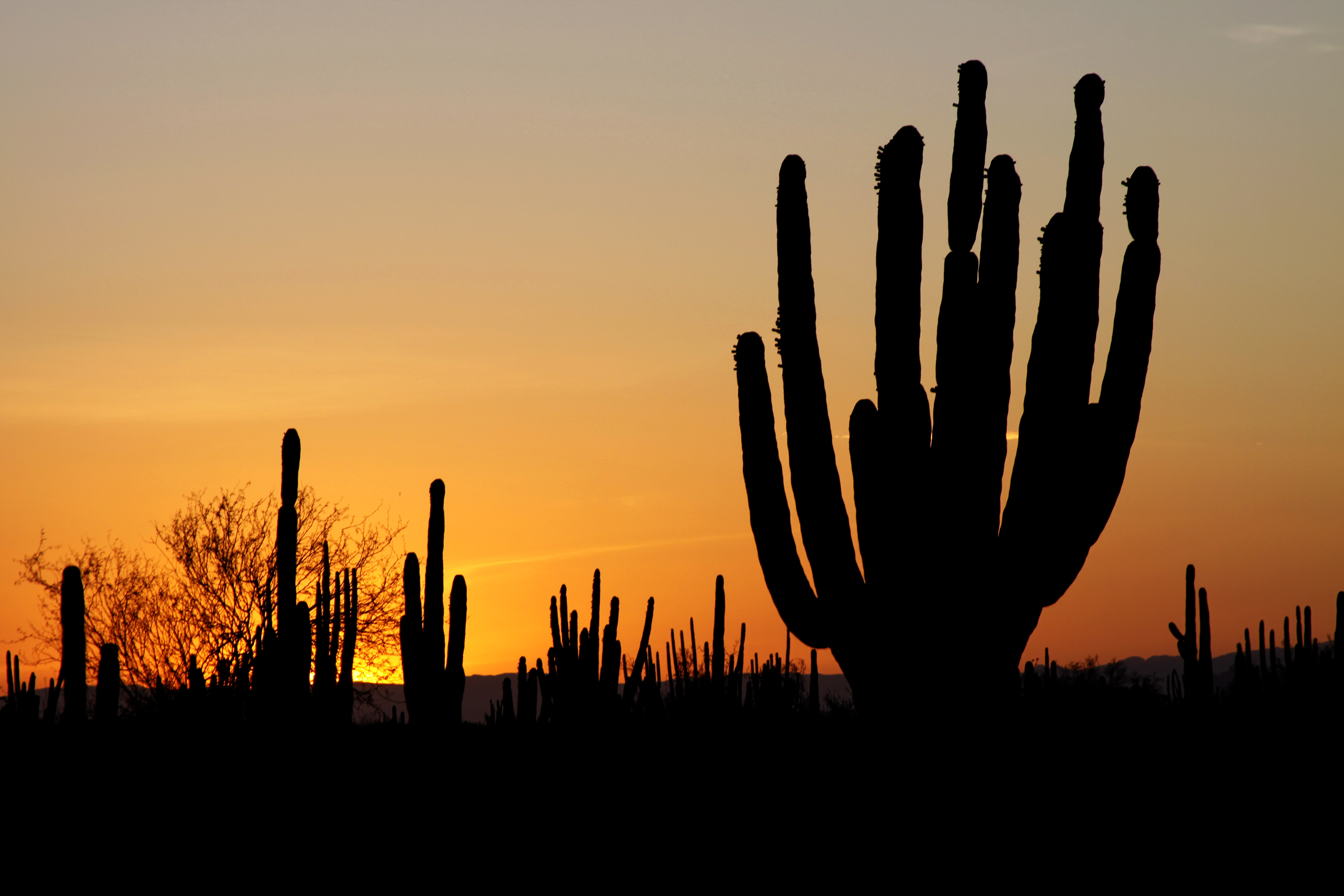 Sunset in the Sonoran Desert, Mexico.